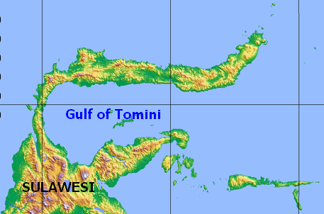 Il golfo di Tomini e la sua posizione